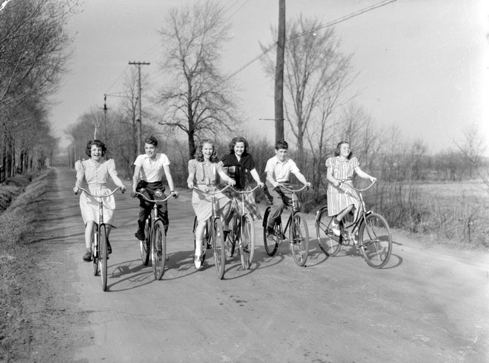 Six young people are riding on the Côte-Saint-Luc Street in Côte Saint-Luc.